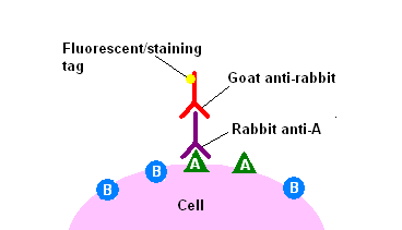 Diagram created by Viki Male, 14th September 2005, to illustrate indirect immunohistochemical staining.